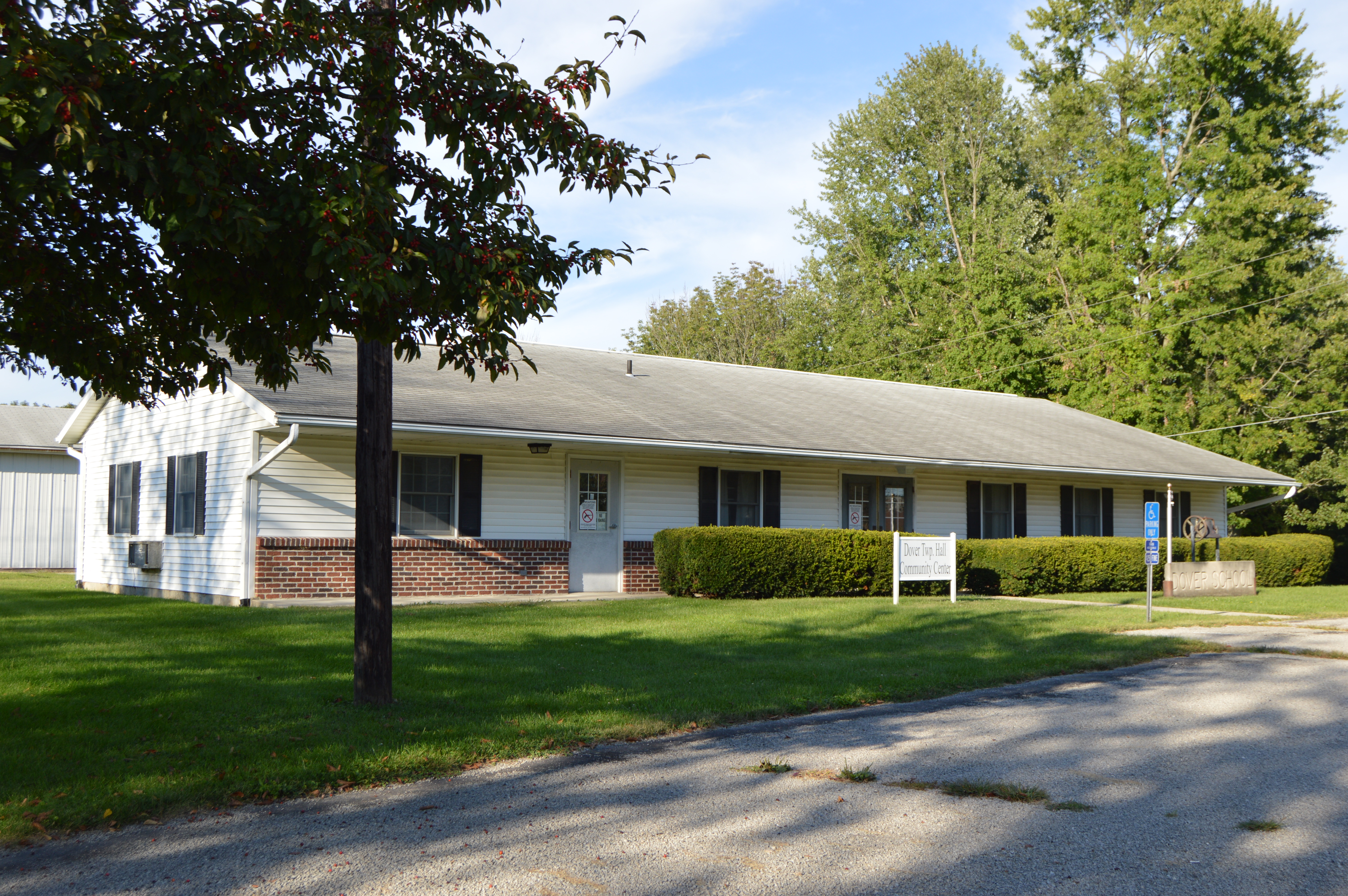 Front and western end of the Dover Township hall and community center building, located at the junction of Church and School Streets in New Dover, Ohio, United States.